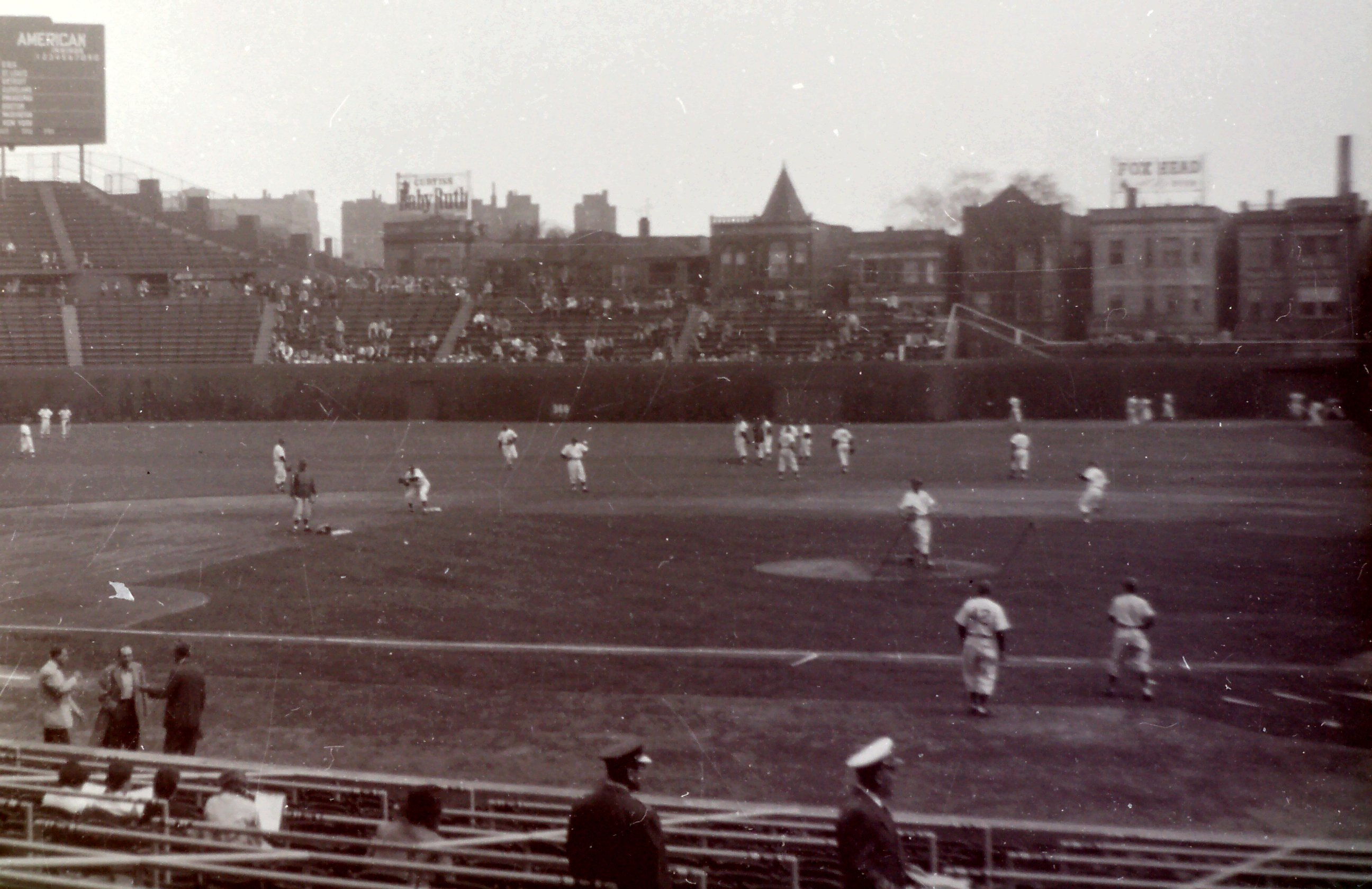 Cubs working out at Wrigley Field